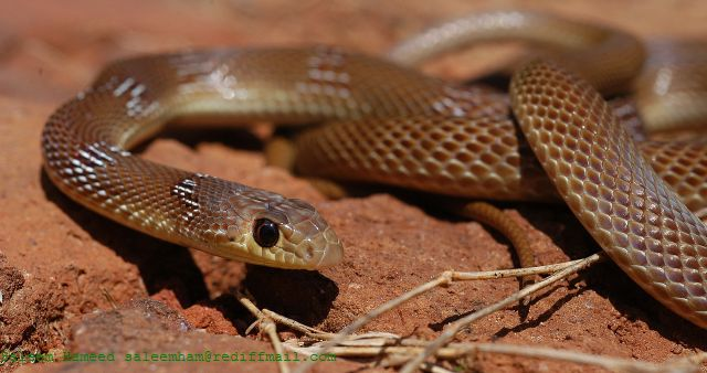 Banded racer (Argyrogena fasciolata), India